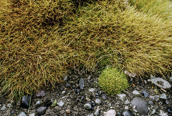 Antarctic Hairgrass (Deschampsia) and Antarctic Pearlwort (Colobanthus) growing in the South Shetland Islands